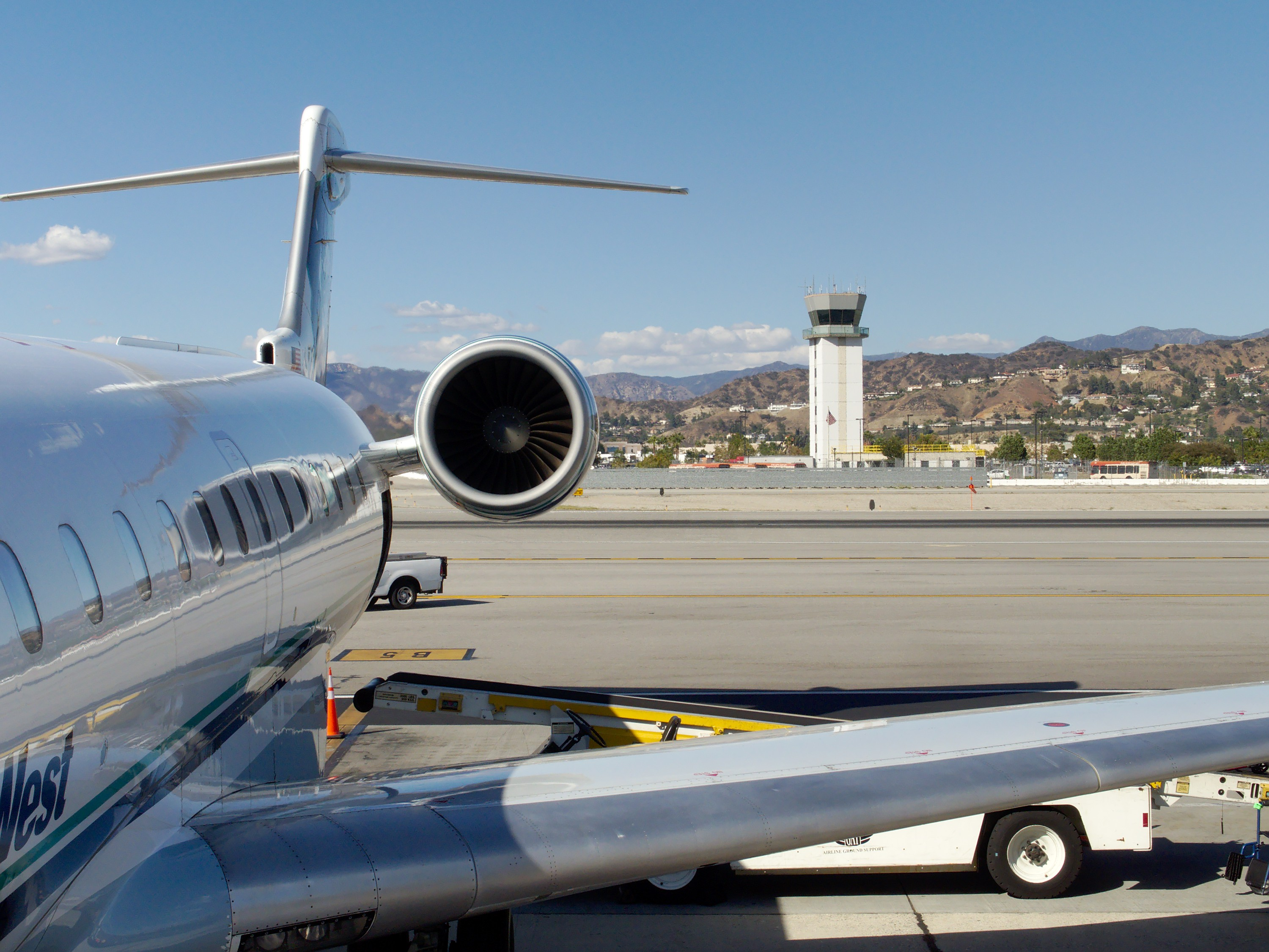 Burbank airport field and tower, view north from open gangway.